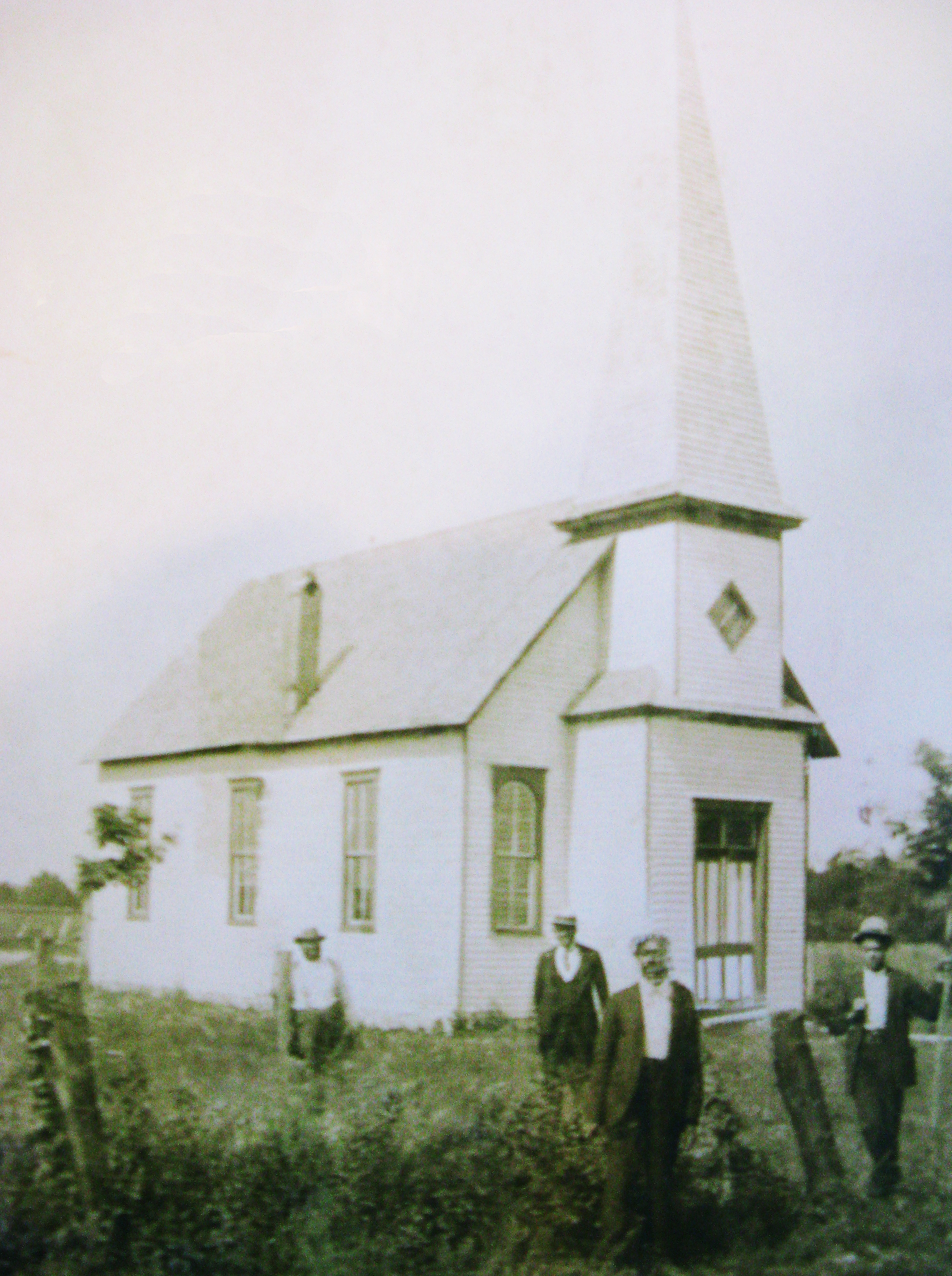 St. Stephen's African Methodist Episcopal Church, ca. 1900